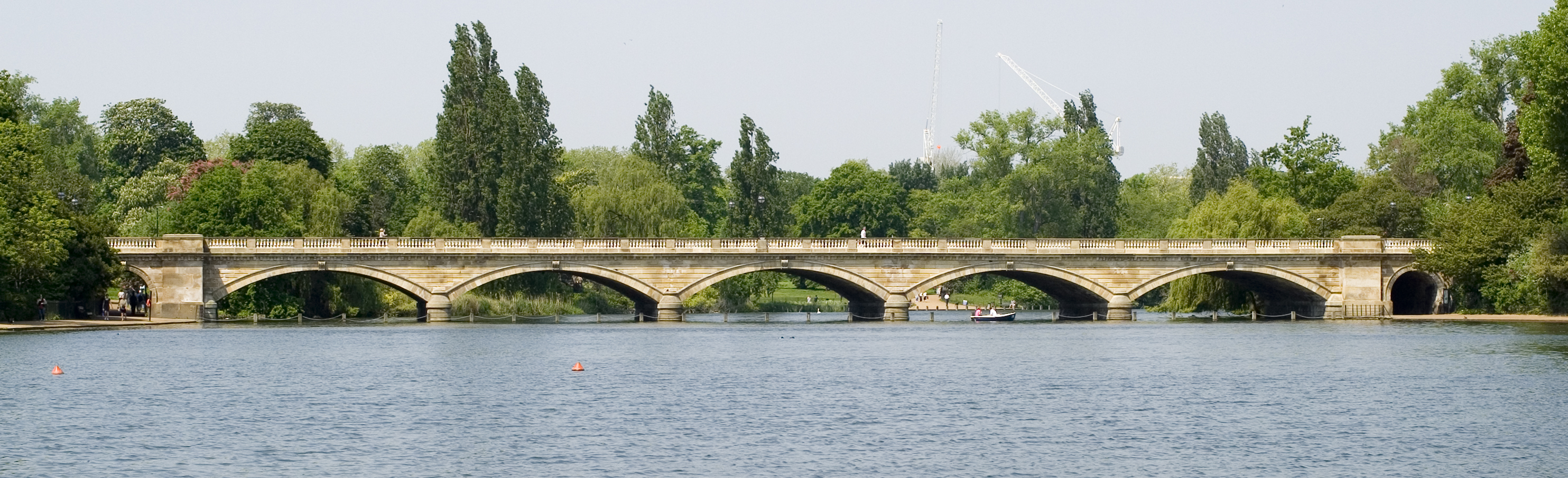 Serpentine Bridge in Hyde Park, London seen from the eastern end of The Serpentine